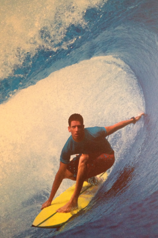 Sean Boileau Grip it and Rip It